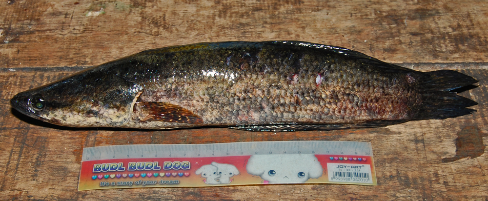 Channa lucius, TL 330mm (SL 290mm). From Mentaya Hulu, Central Kalimantan, Indonesia.